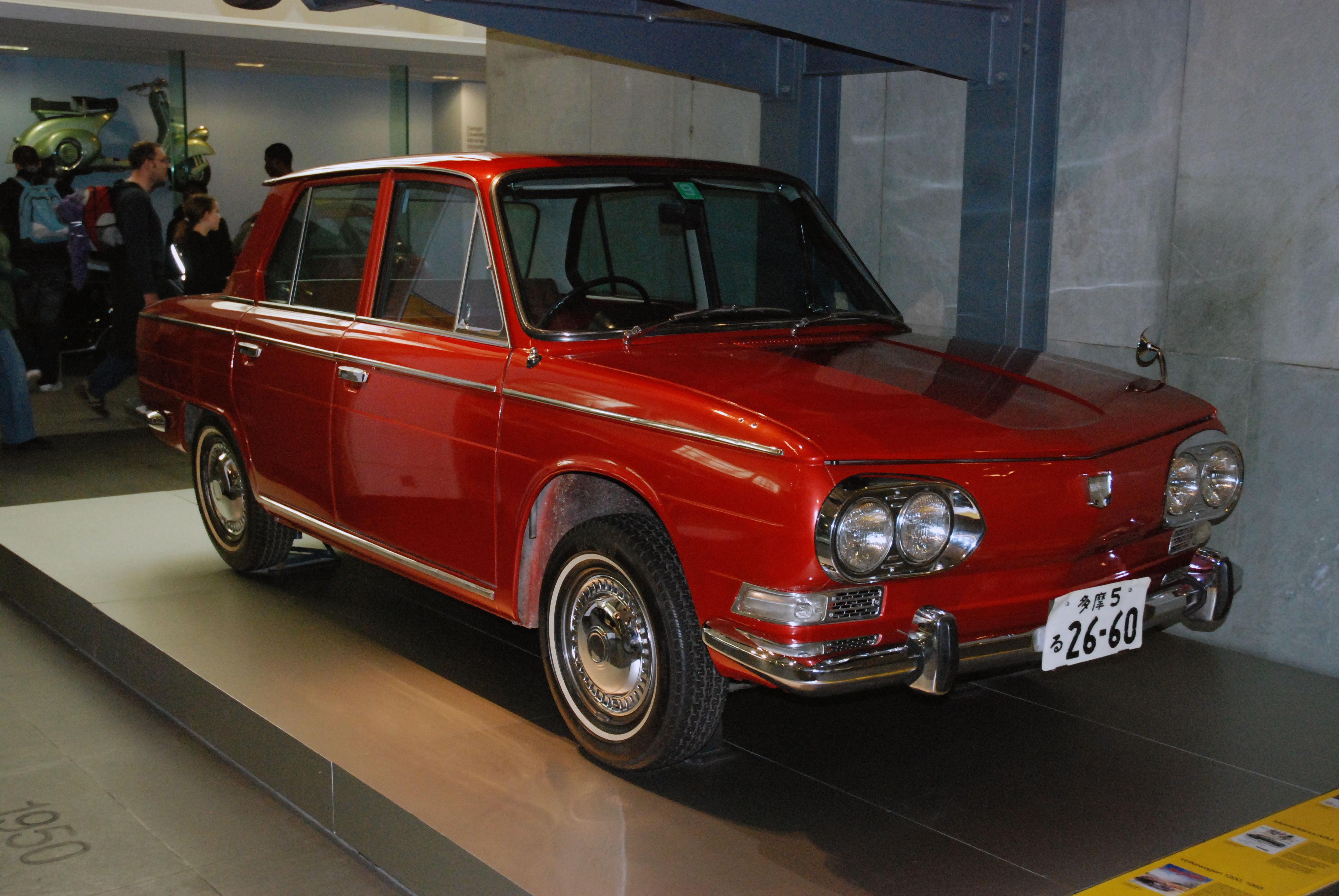 Science Museum,London,Apr 2008